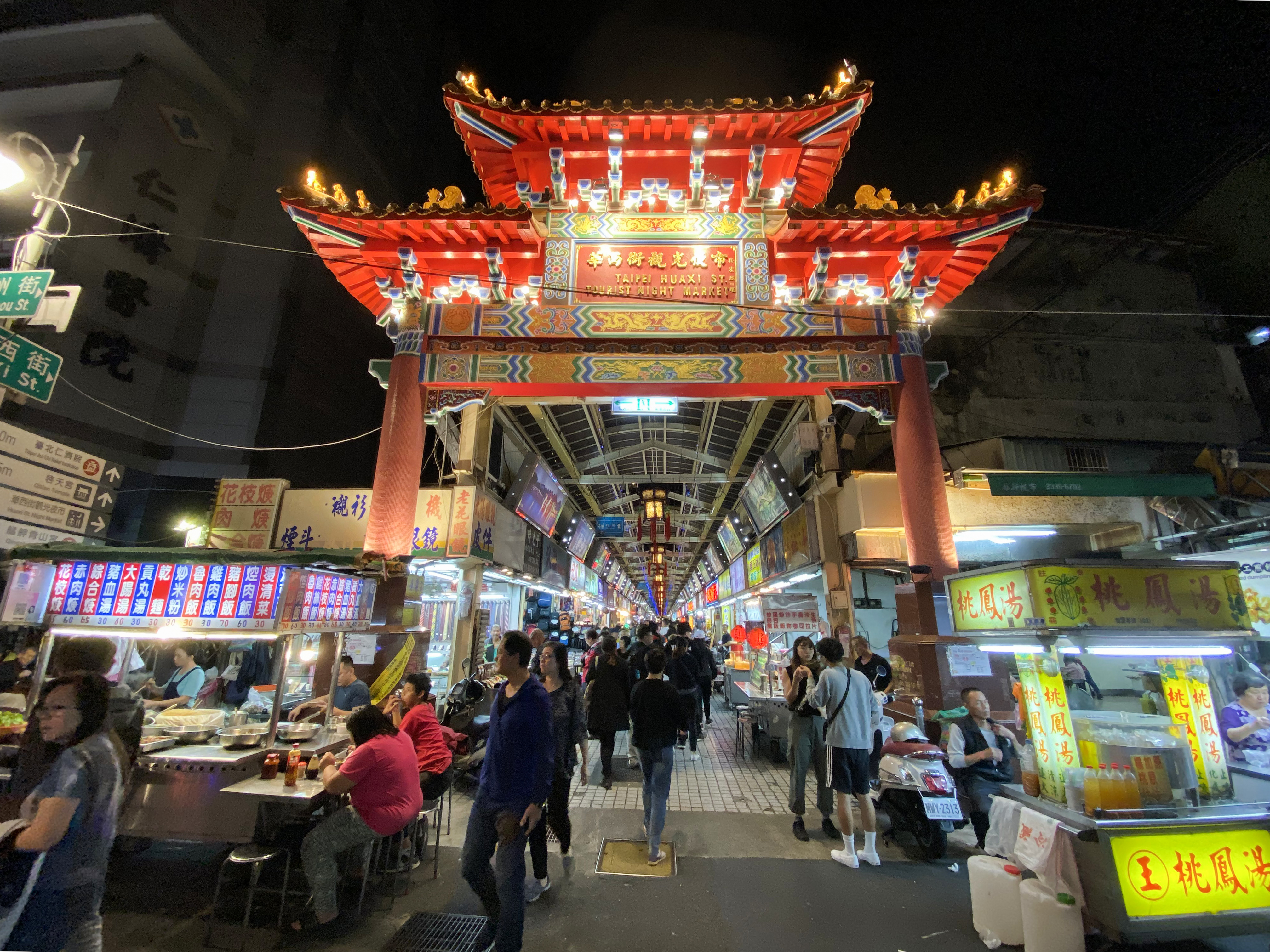 Huaxi Street Tourist Night Market